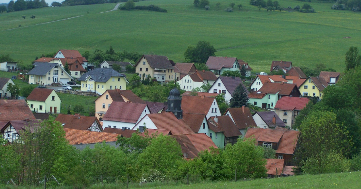 Brunnhartshausen village.